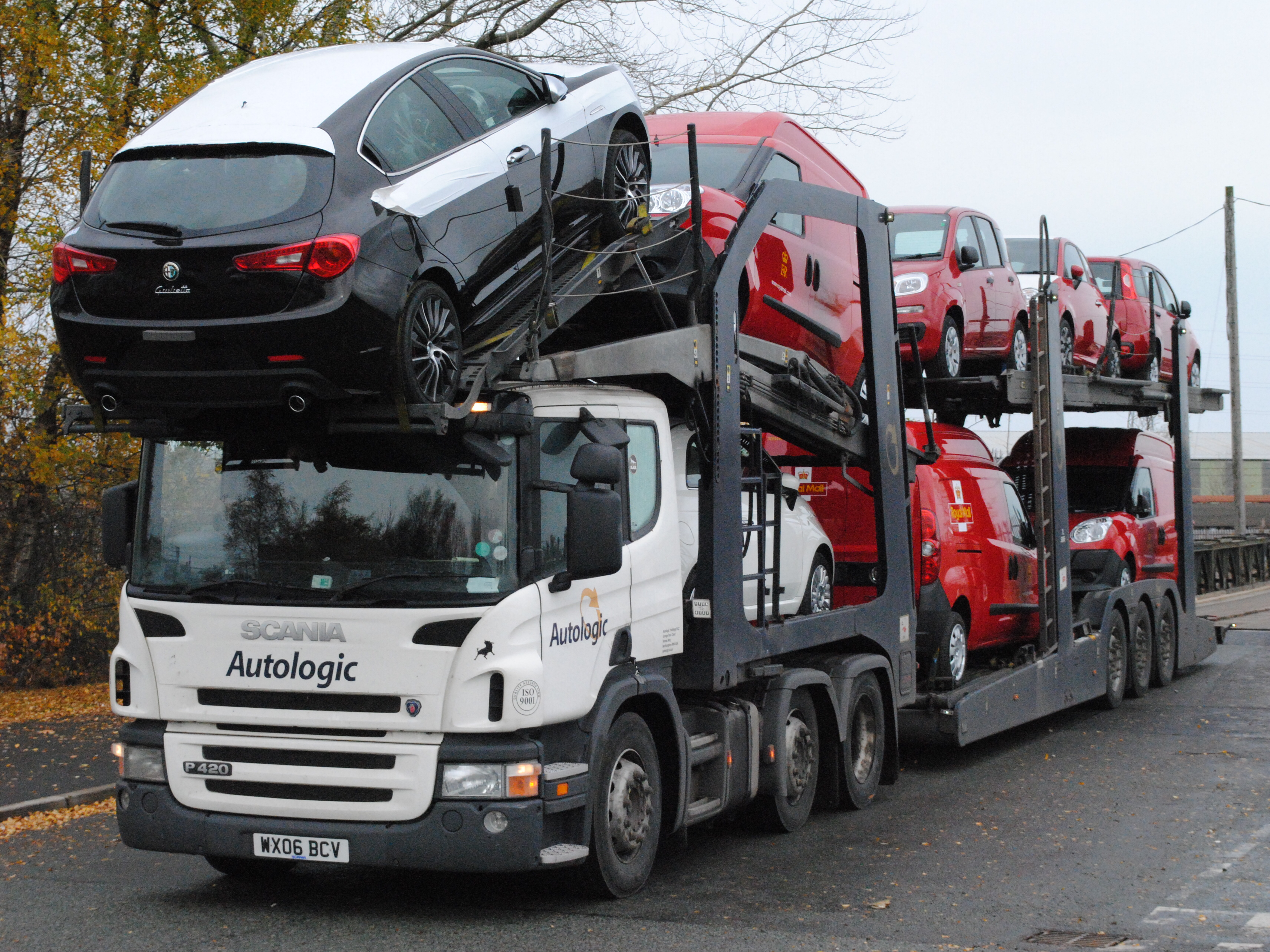 Scania P420 Car Transporter. seen here in Foundry Lane, Ditton